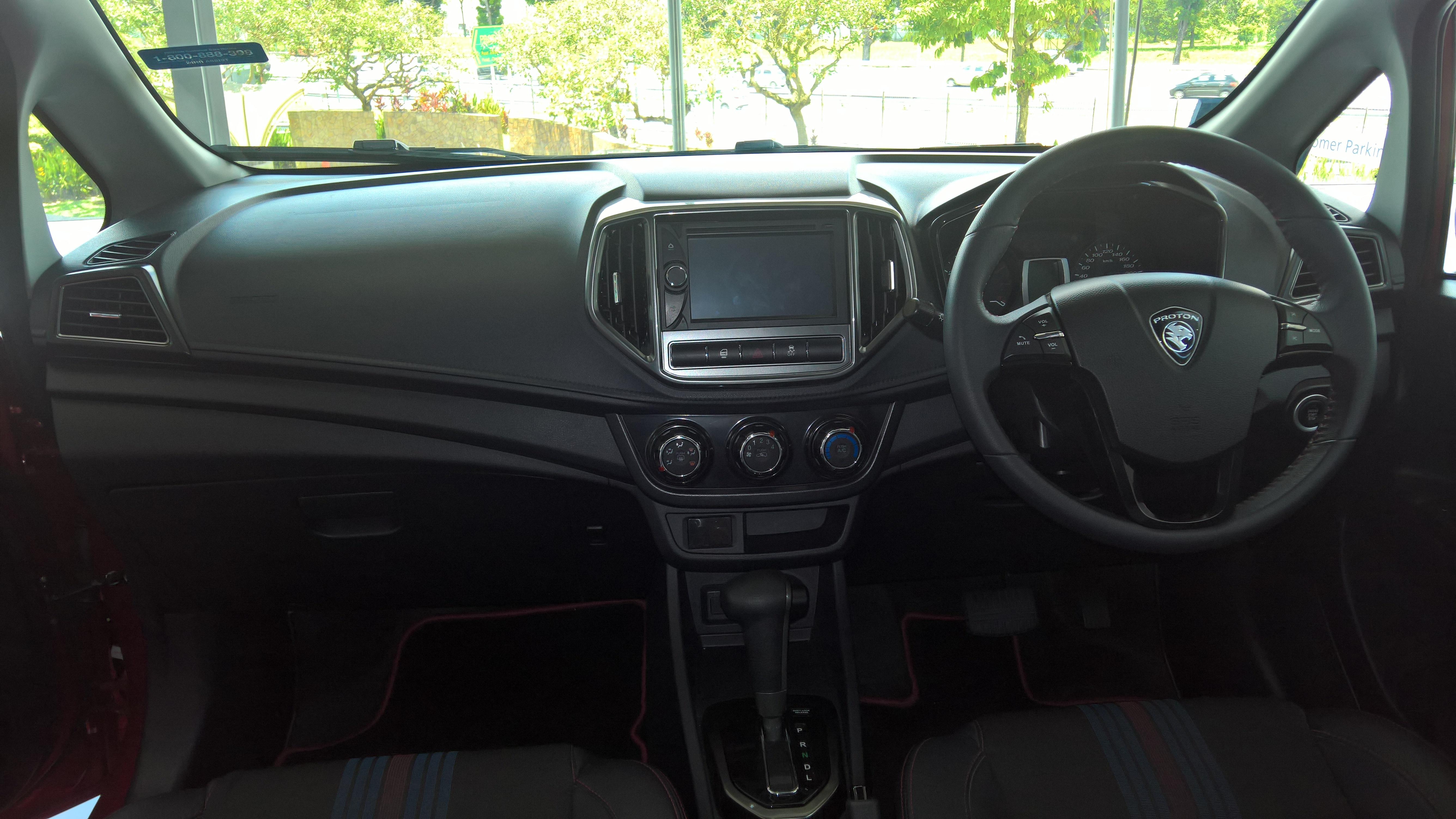 Interior of a Proton Iriz, taken at the Proton Centre of Excellence, Shah Alam